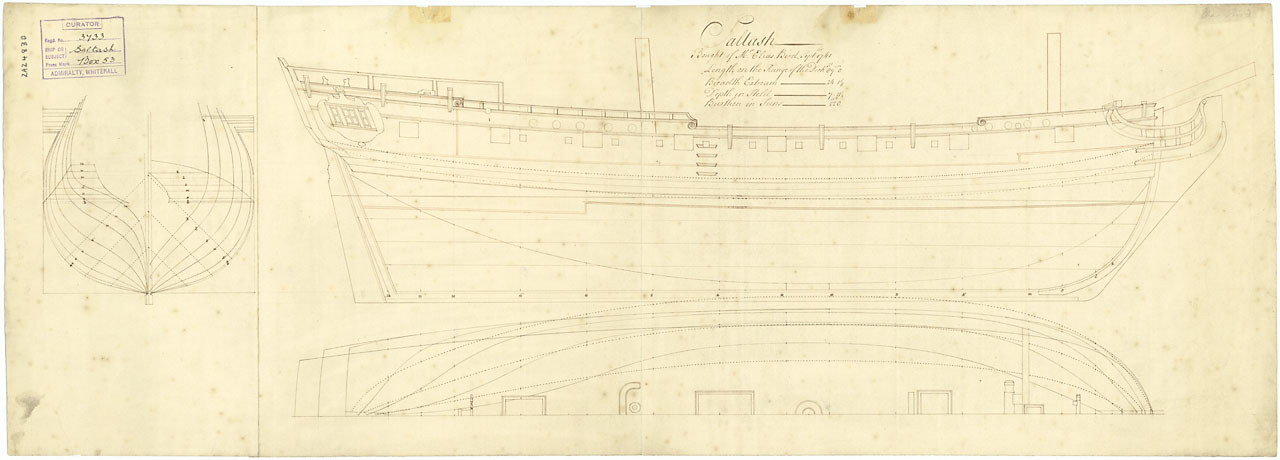 SALTASH 1741 lines